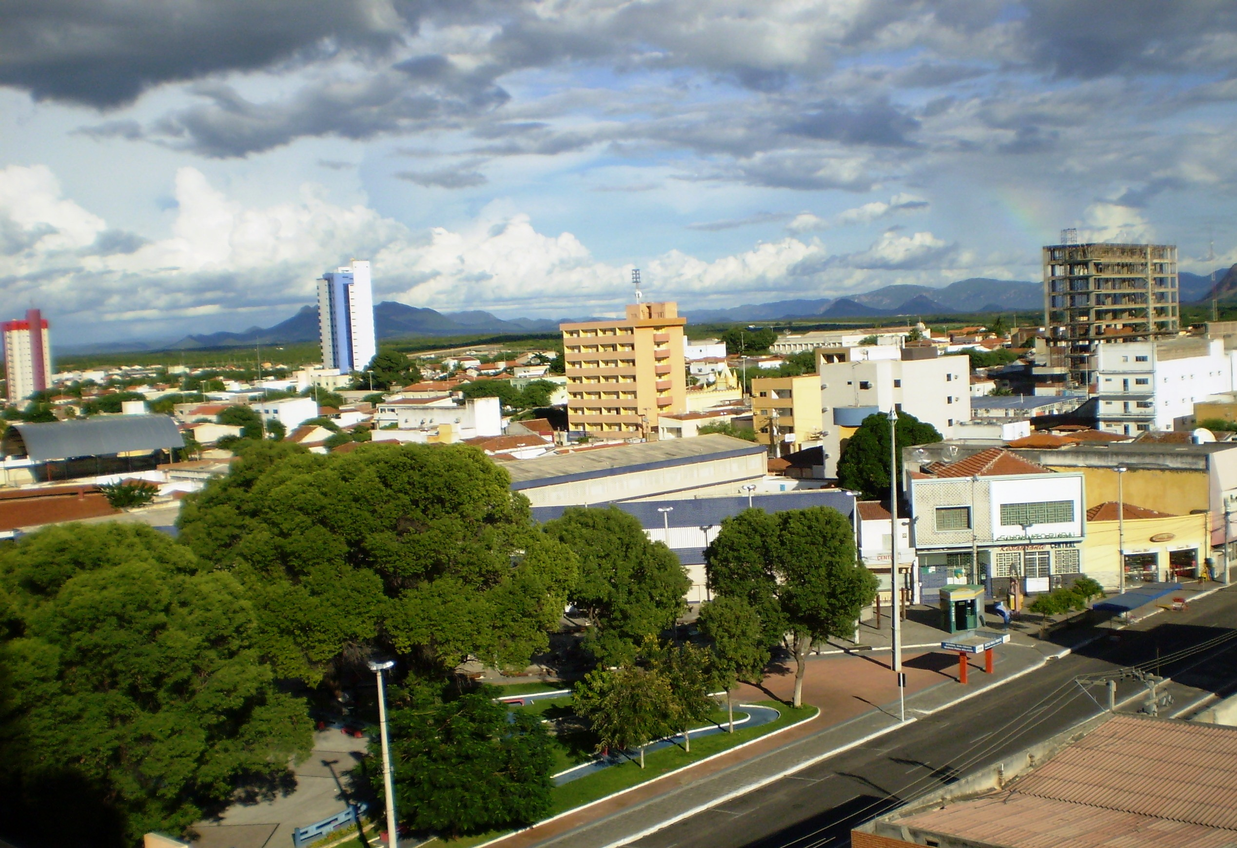 Partial View Center City - Patos,PB,Brazil